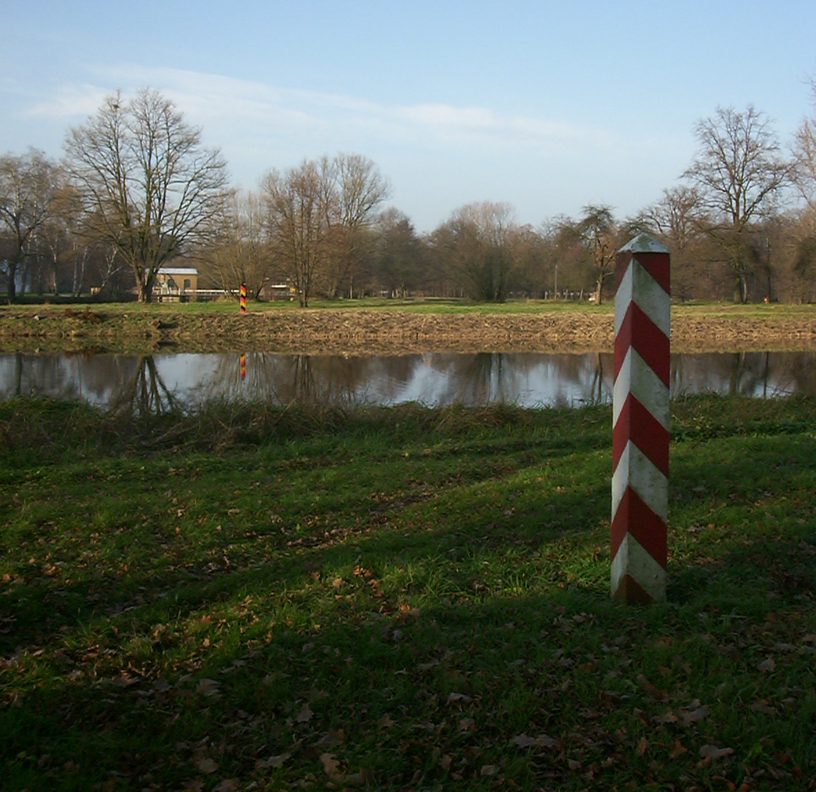 View over the Neisse